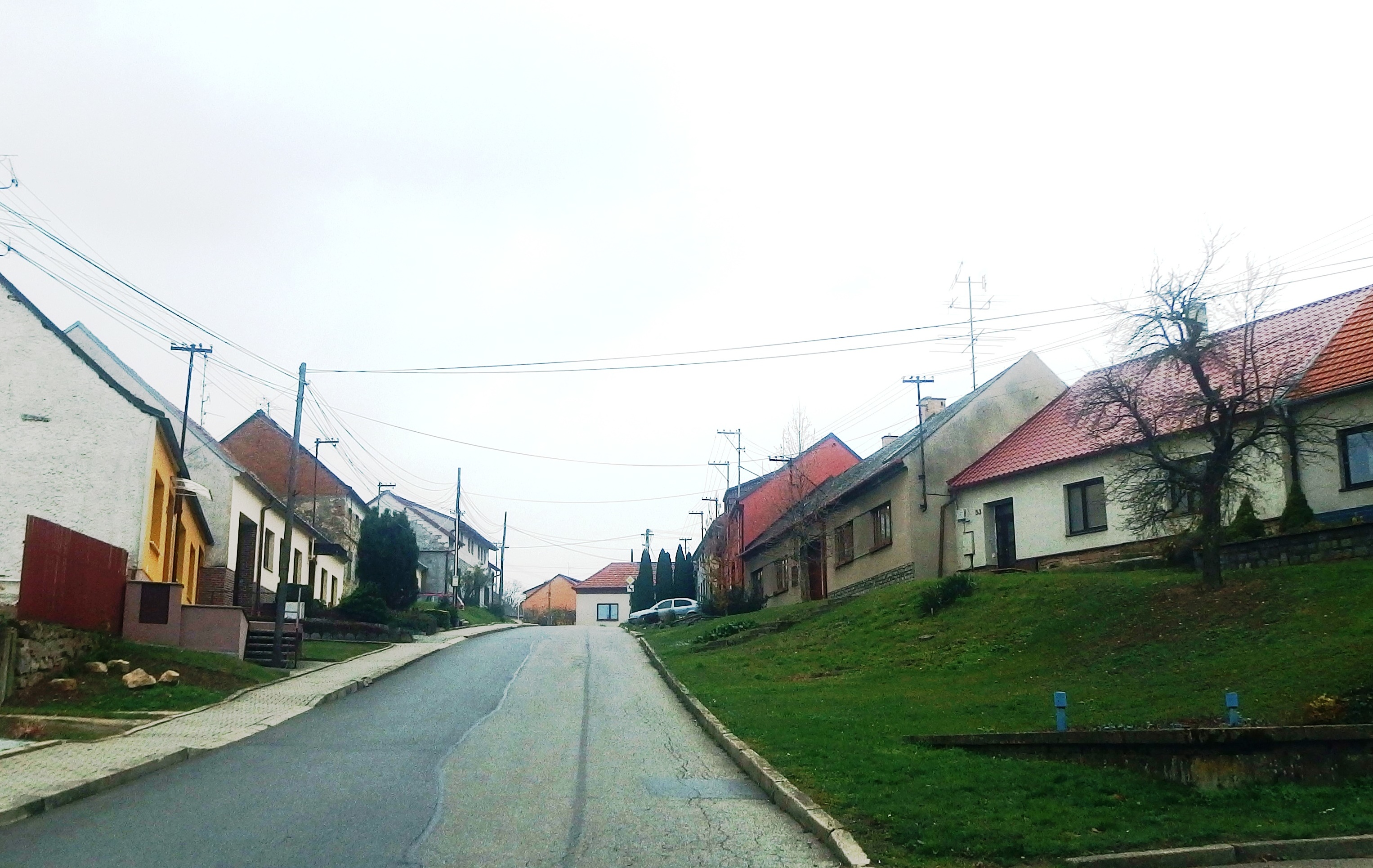 Holubice, Vyškov District, Czech Republic.